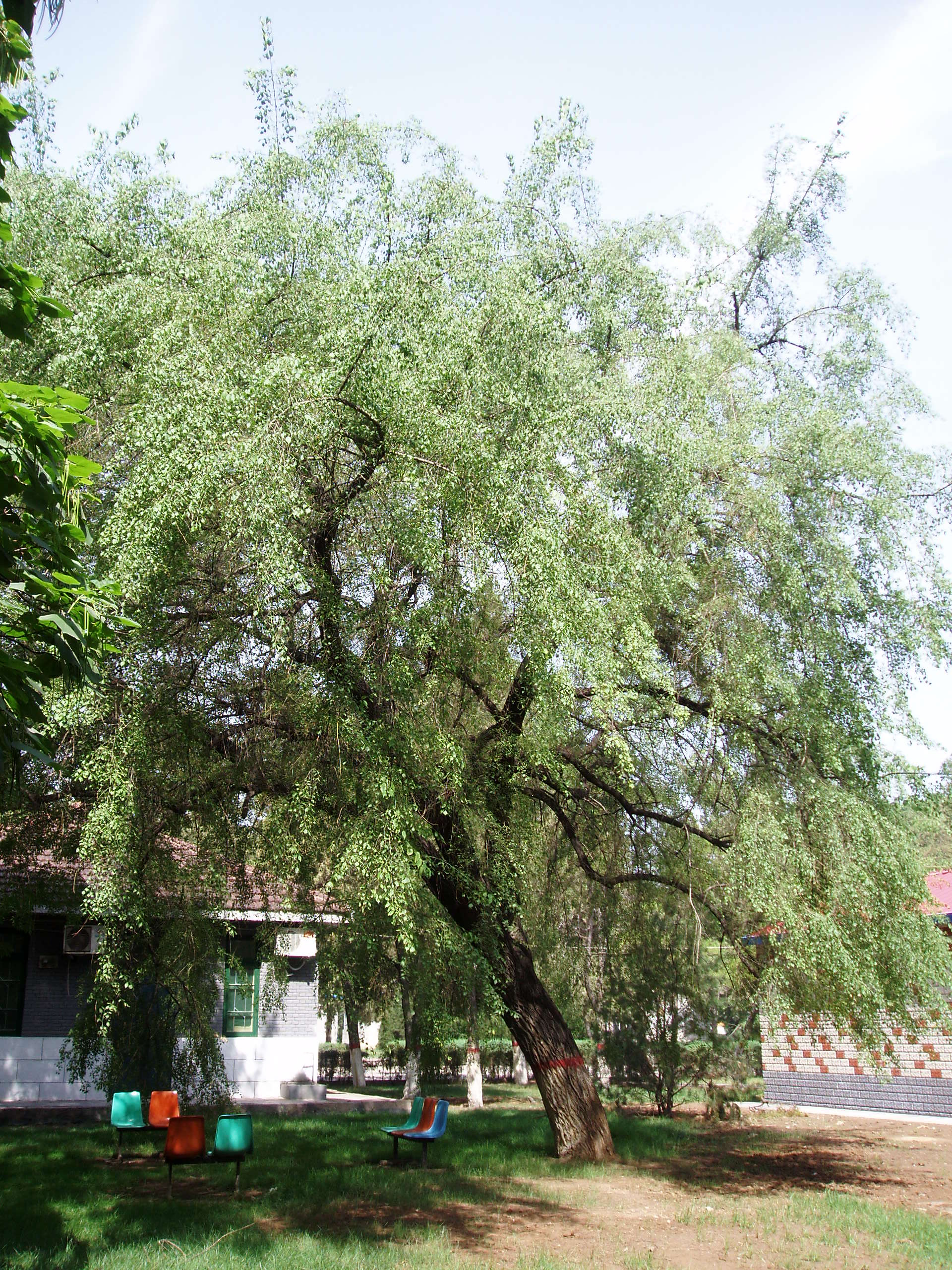 Winterberry euonymus tree